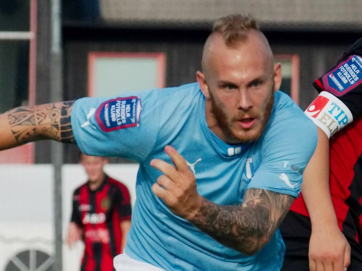 Allsvenskan IF Brommapojkarna-Malmö FF at Grimsta IP